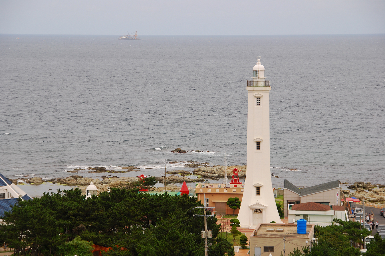 A view of Homigot Lighthouse from the observation deck of the New Millennium Memorial Hall.